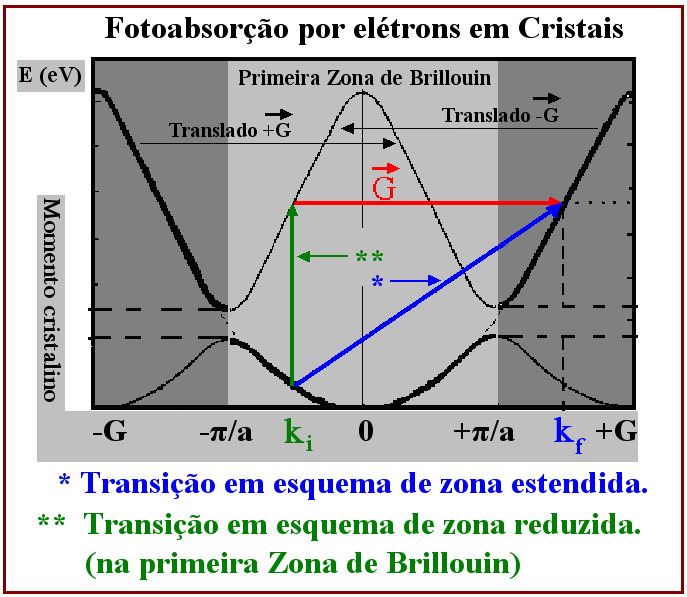 Photoexcitation procedure as described in terms of the dispersion-relation diagram.